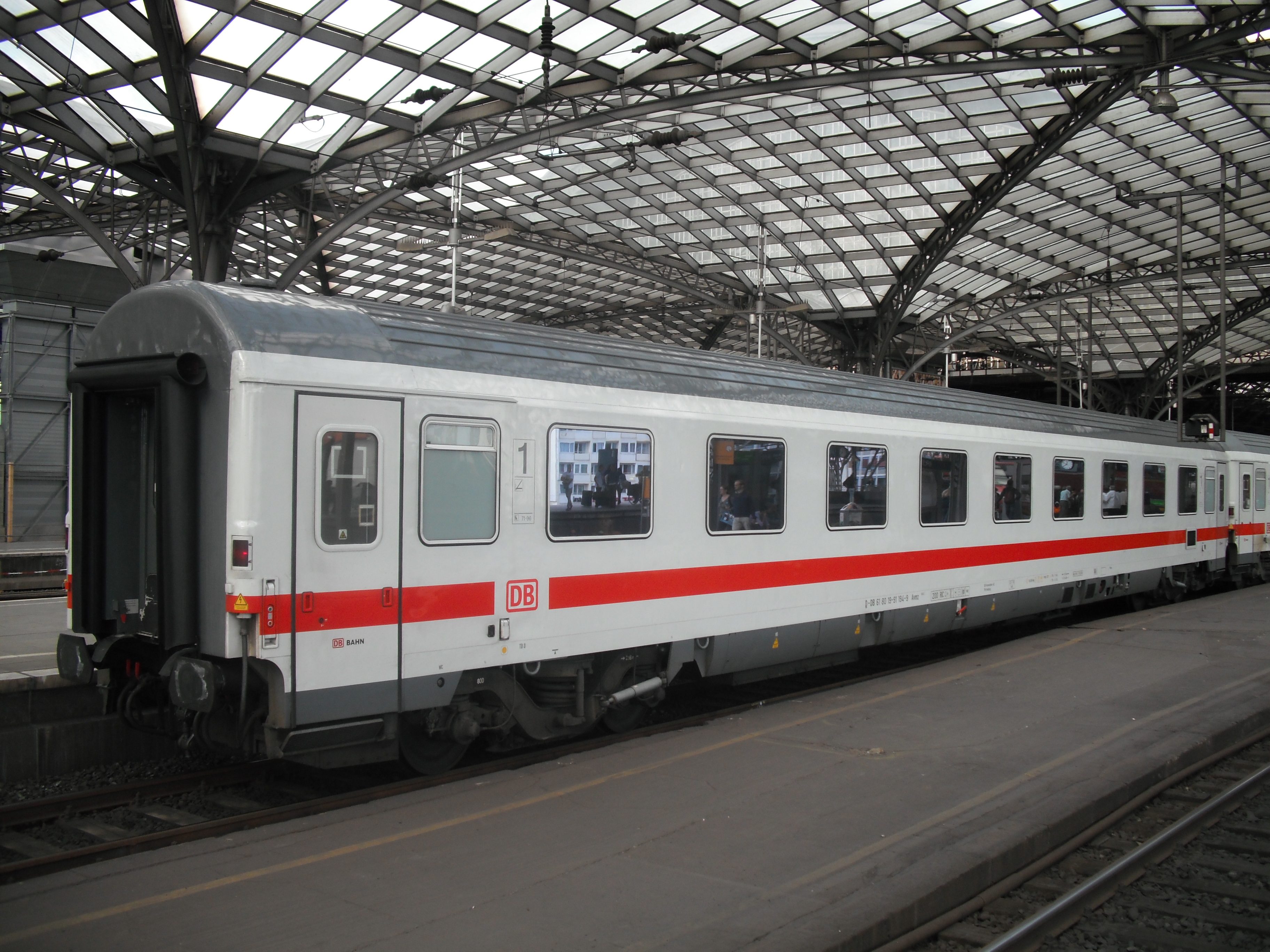 DB First class Eurofima-coach at Cologne Hbf